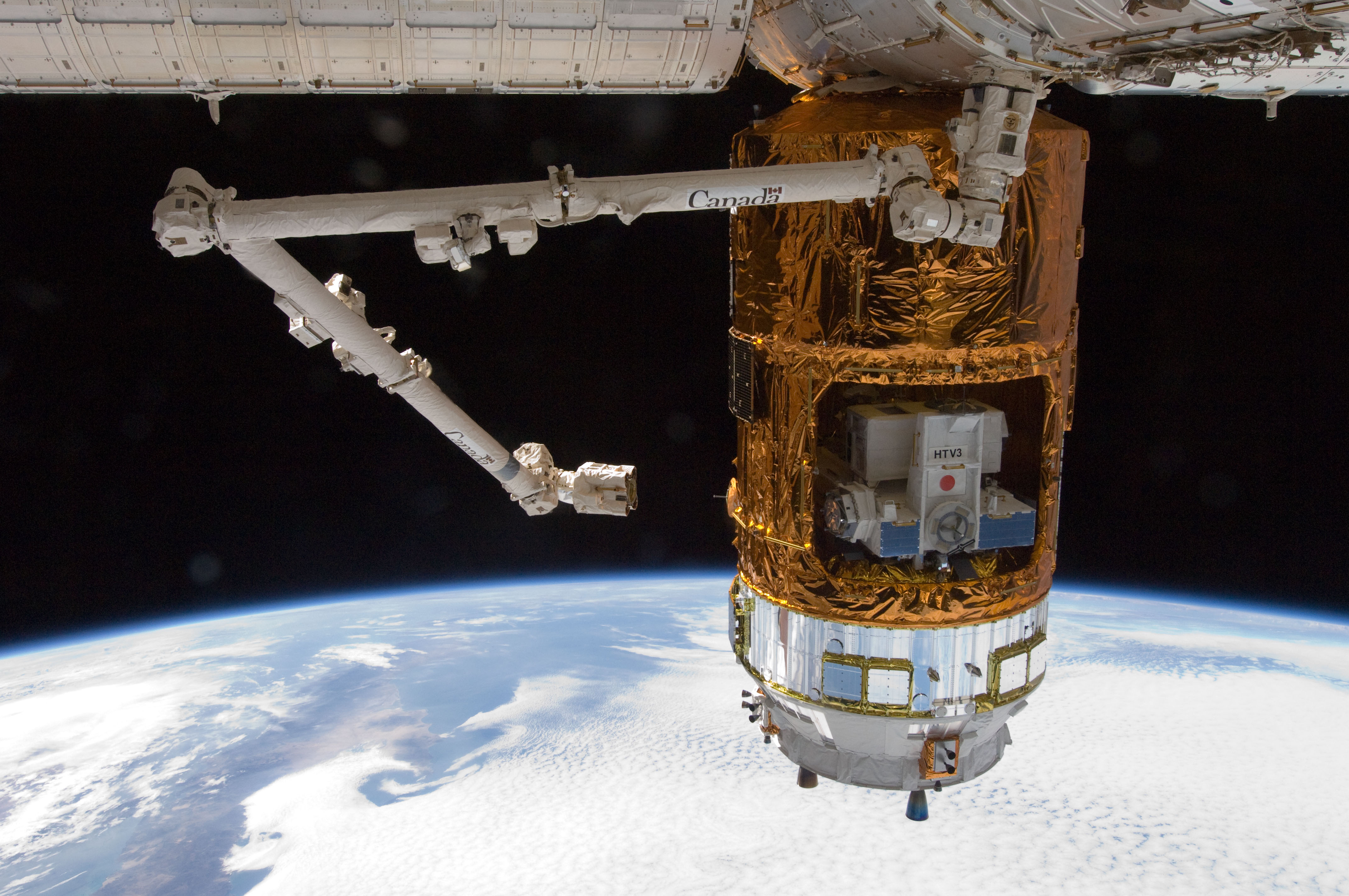 The unpiloted Japan Aerospace Exploration Agency (JAXA) H-II Transfer Vehicle (HTV-3) is featured in this image photographed by an Expedition 32 crew member shortly after the HTV-3 was berthed to the Earth-facing port of the International Space Station's Harmony node using the Canadarm2 robotic arm. The attachment was completed at 10:34 a.m. (EDT) on July 27, 2012. Earth's horizon and the blackness of space provide the backdrop for the scene.